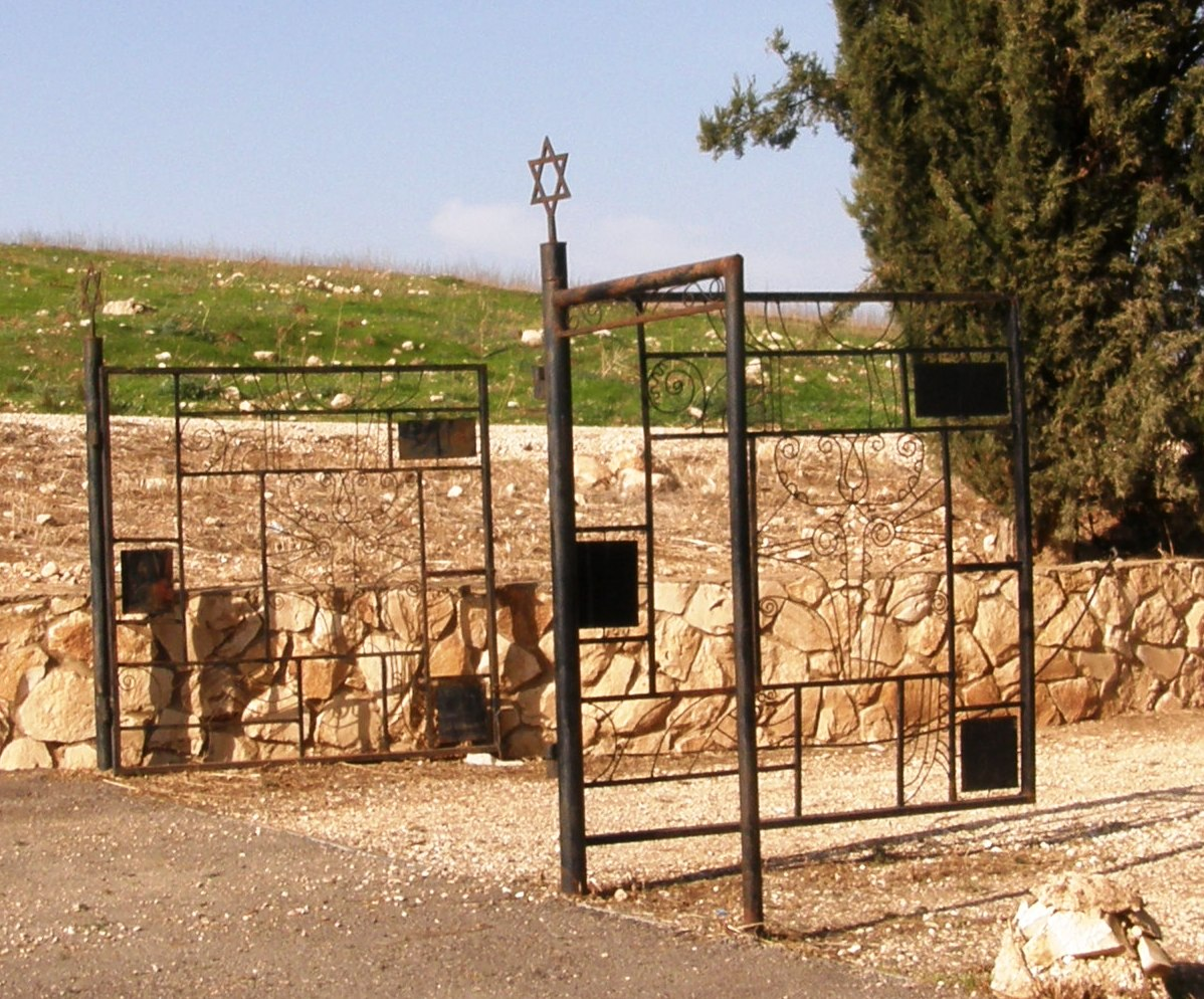 Israel, Kfar Yehezkel, gate of the cemetery